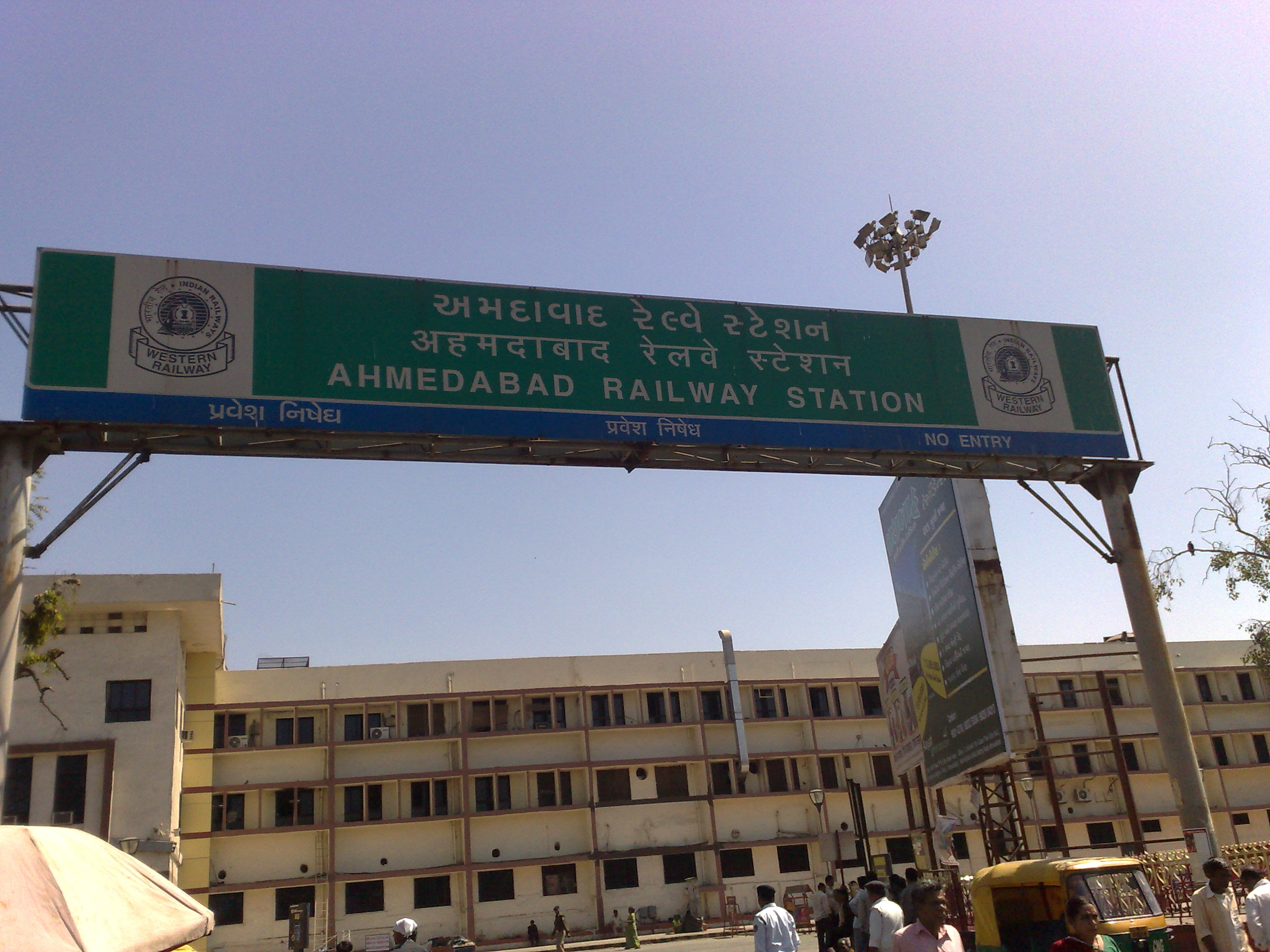 Ahmedabad Railway Station main entrance